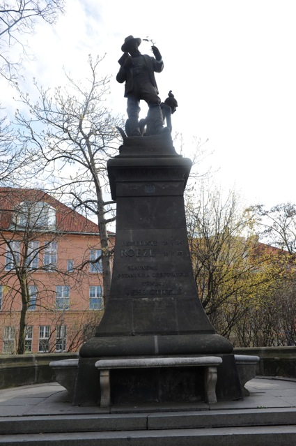 The Statue of botanist Benedikt Roezl in Prague, Karlovo náměstí Česky: Socha Benedikta Roezla v Praze na Karlově náměstí square